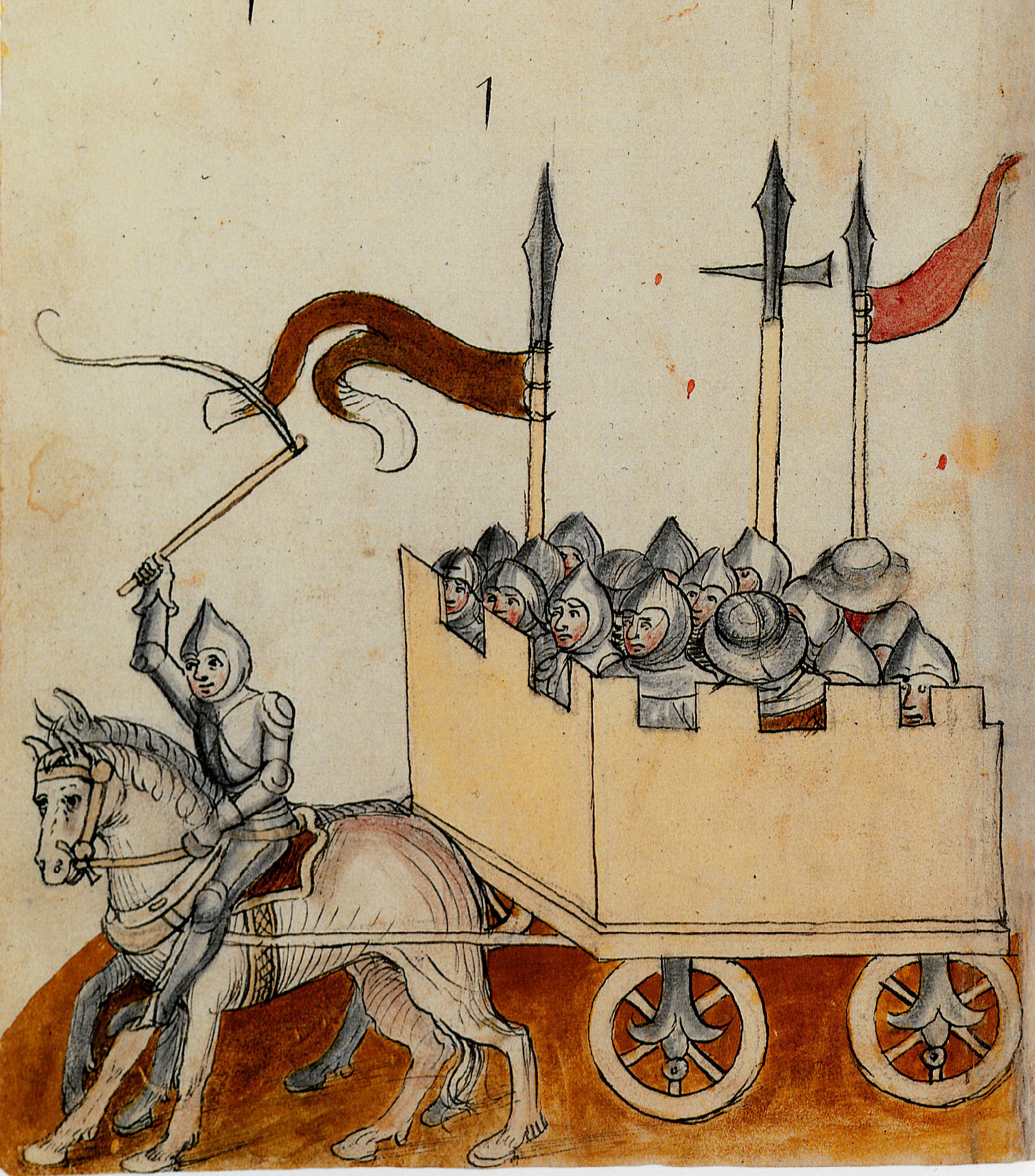 War wagon